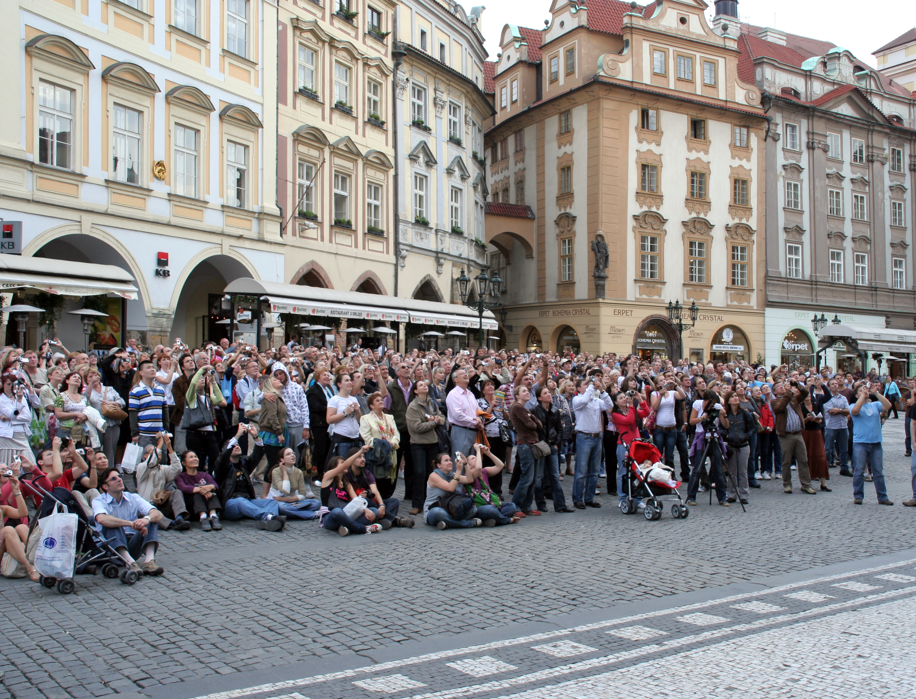 The crowd wait for the Astronomical clock to strike the hour